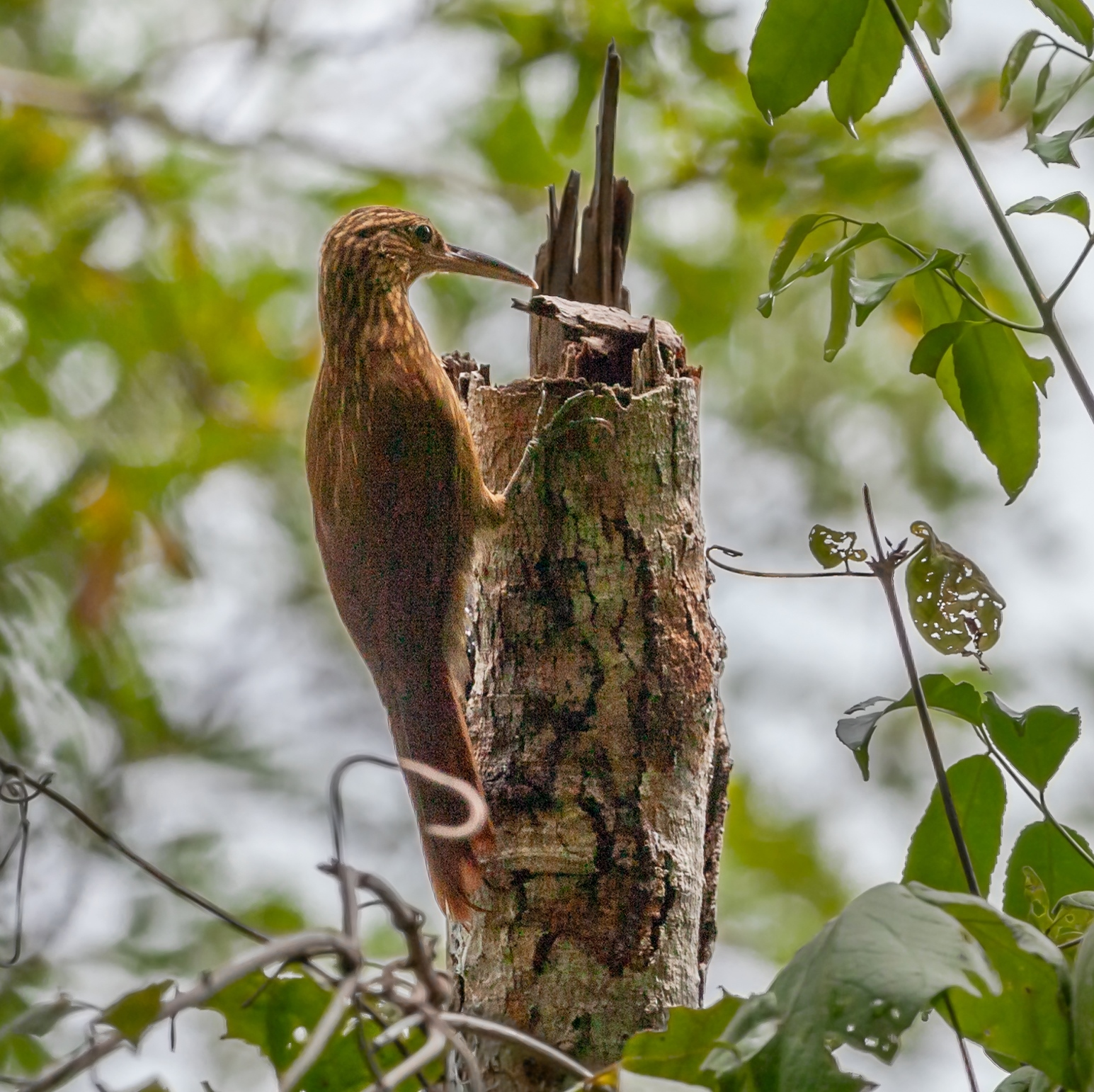 Buff-throated Woodcreeper at Baia Formosa - RN - Brazil